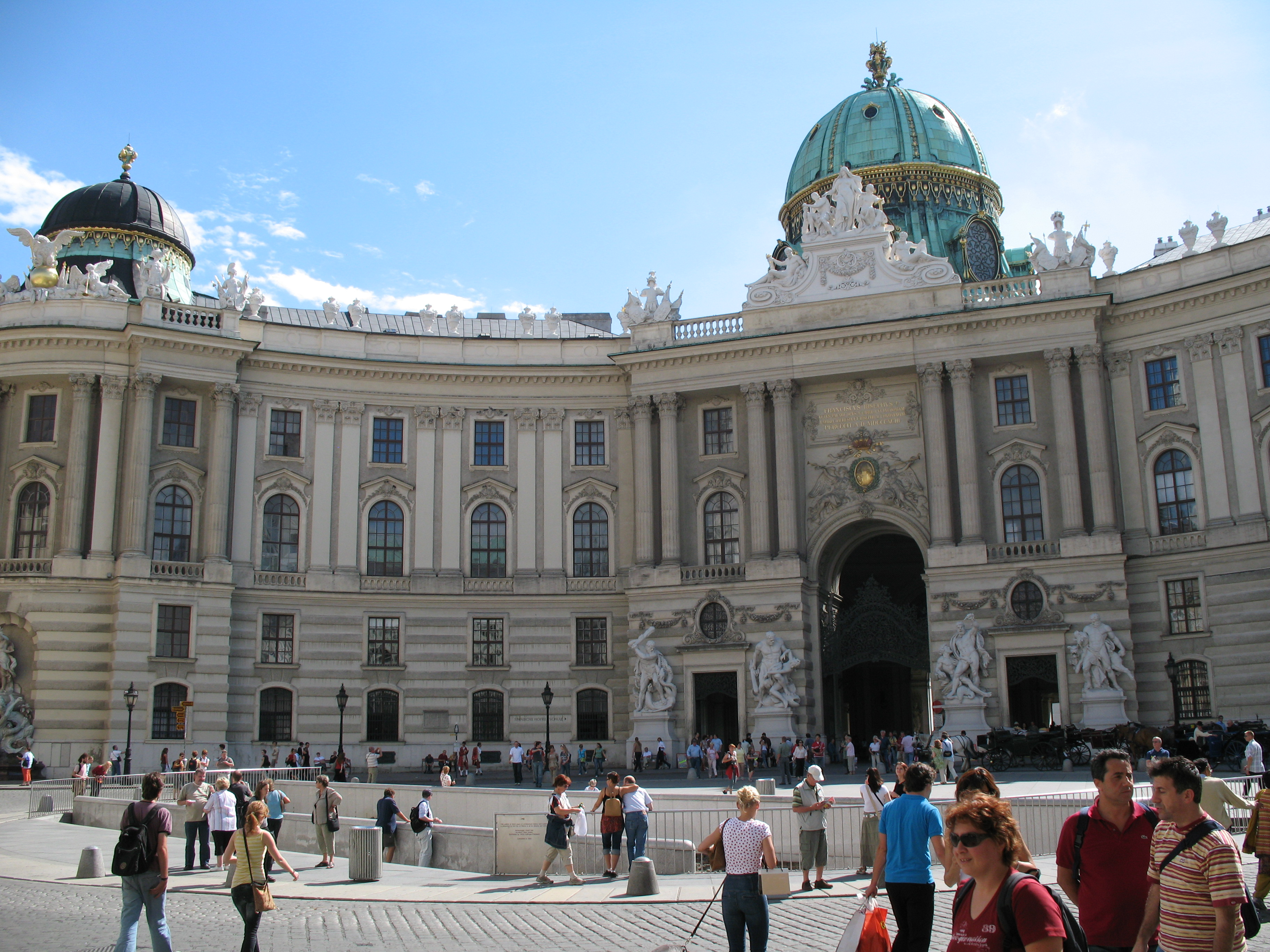 St. Michael Plaza, Vienna, Austria